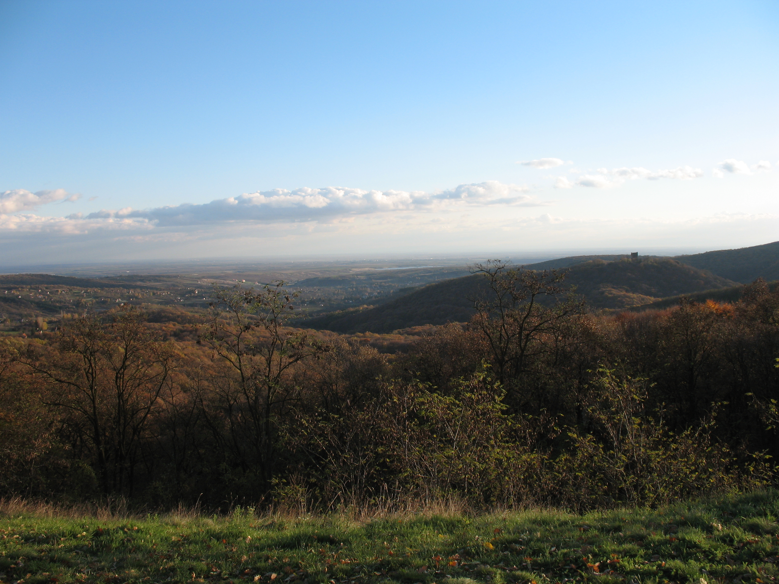 Vrdnik and his tower from Fruška Gora